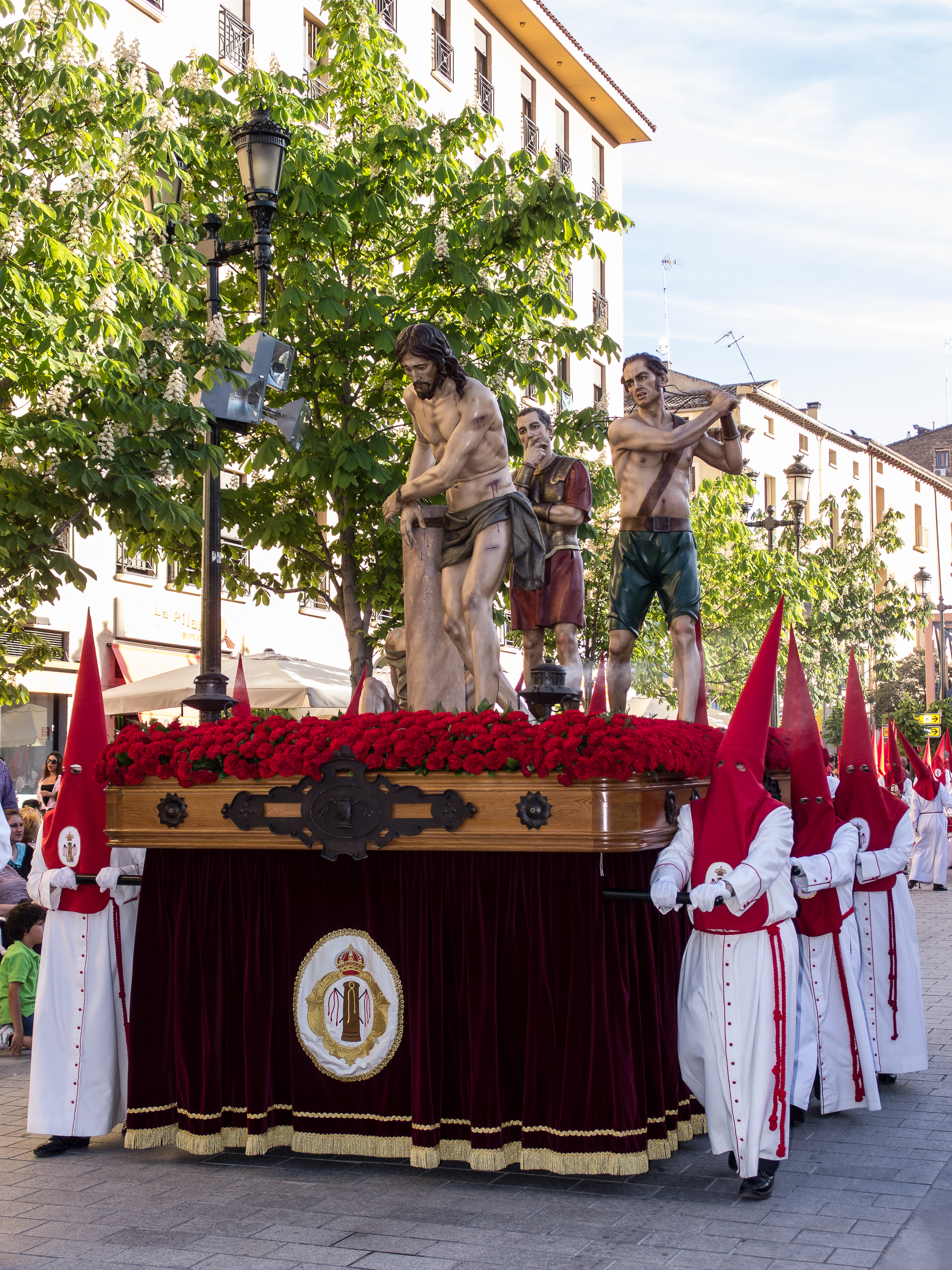 OLYMPUS DIGITAL CAMERA This is a photography of a Folklore festival in Spain (Wikidata id Q9075892).